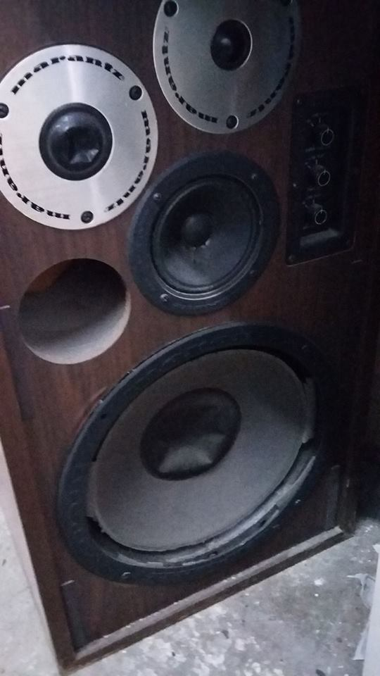 this photo is before i repair it